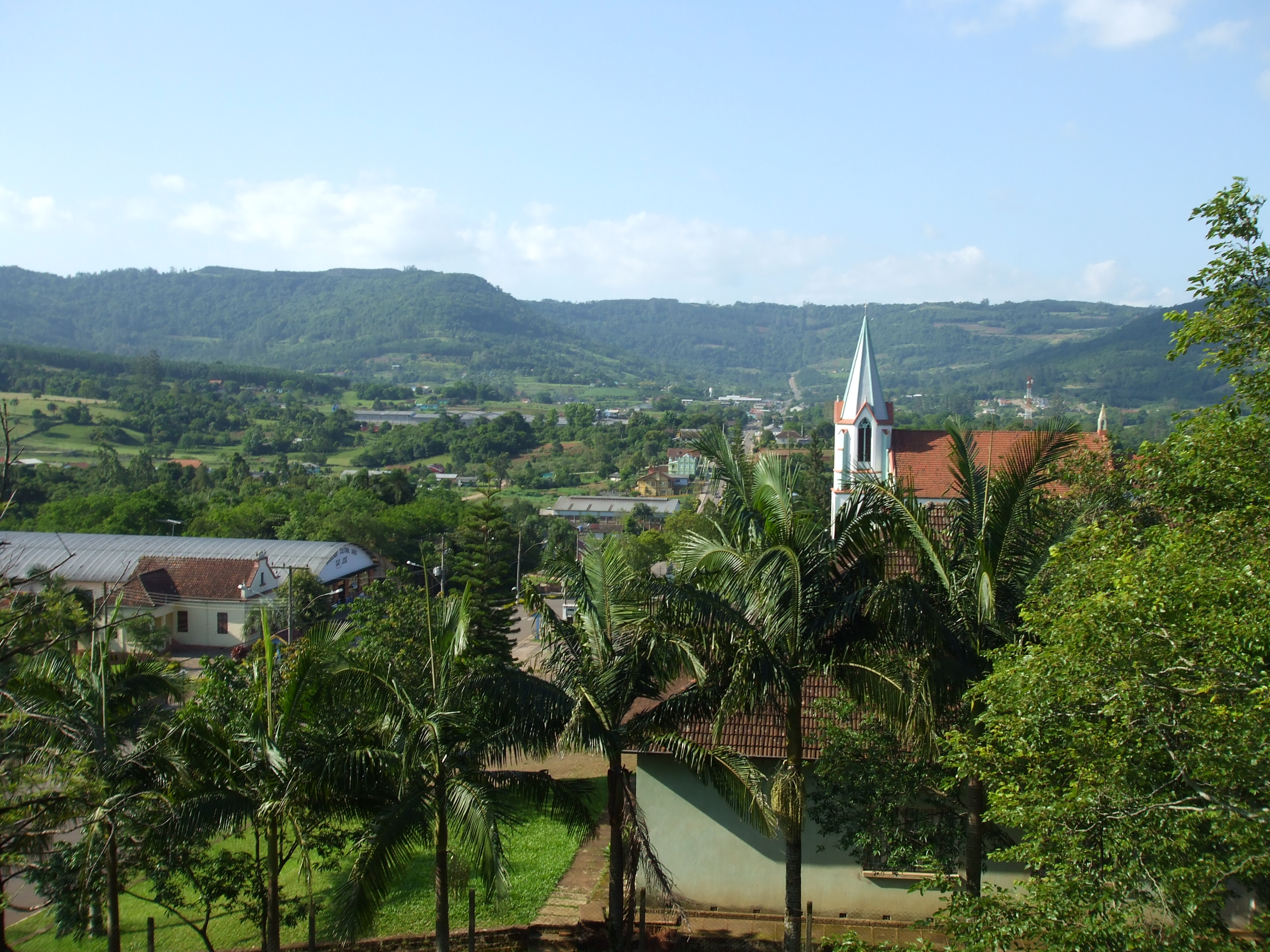 São José do Hortêncio in the north direction, with the St. Joseph church in the first plan.